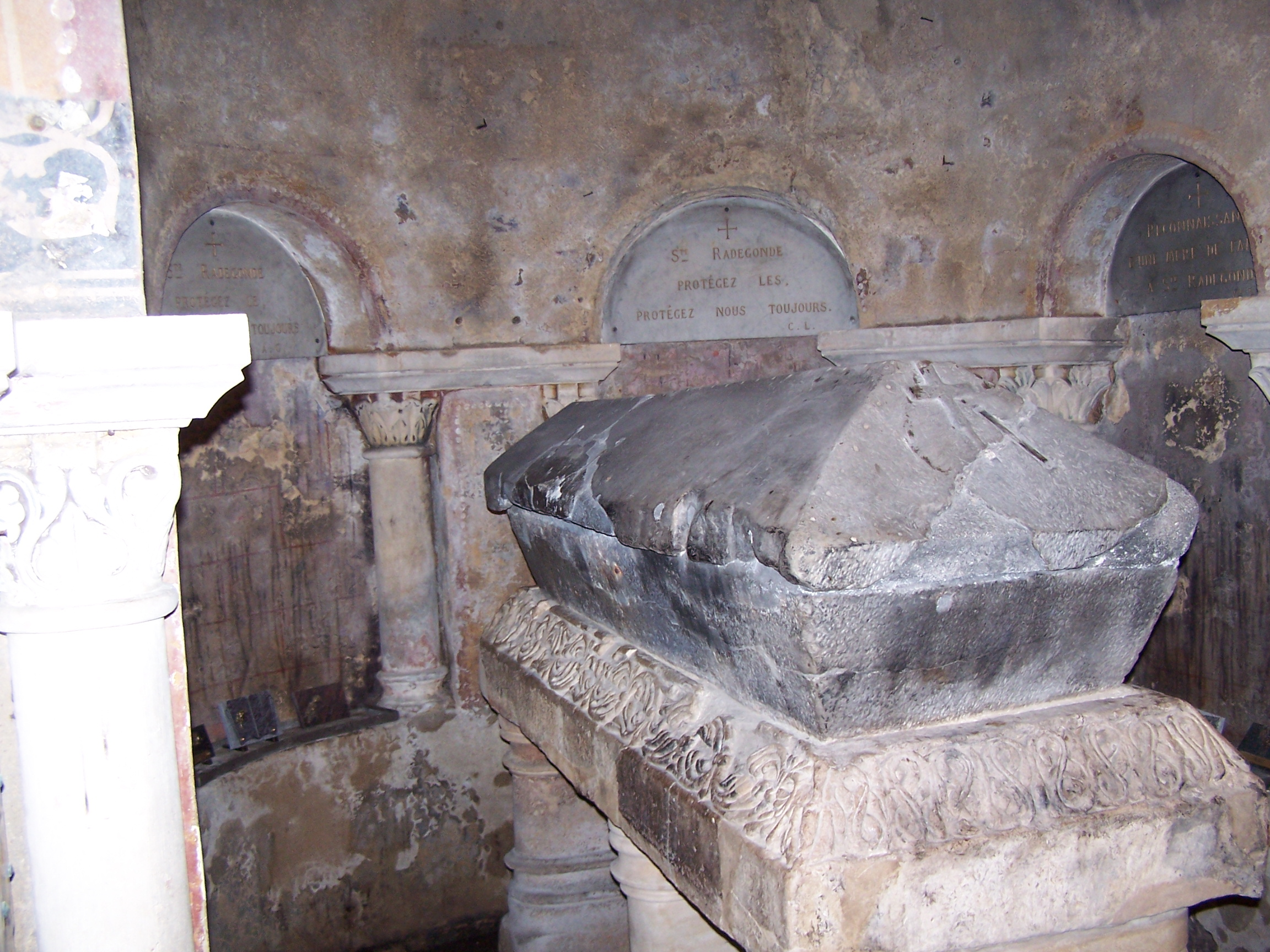 grave tomb of Radegonde